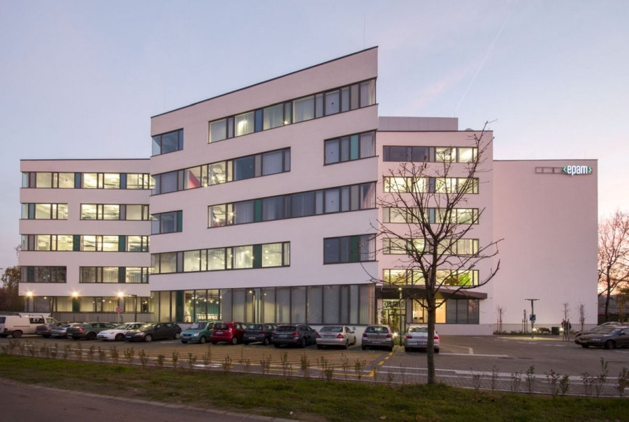 The new office building of the Epam Systems on the banks of the Tisza.